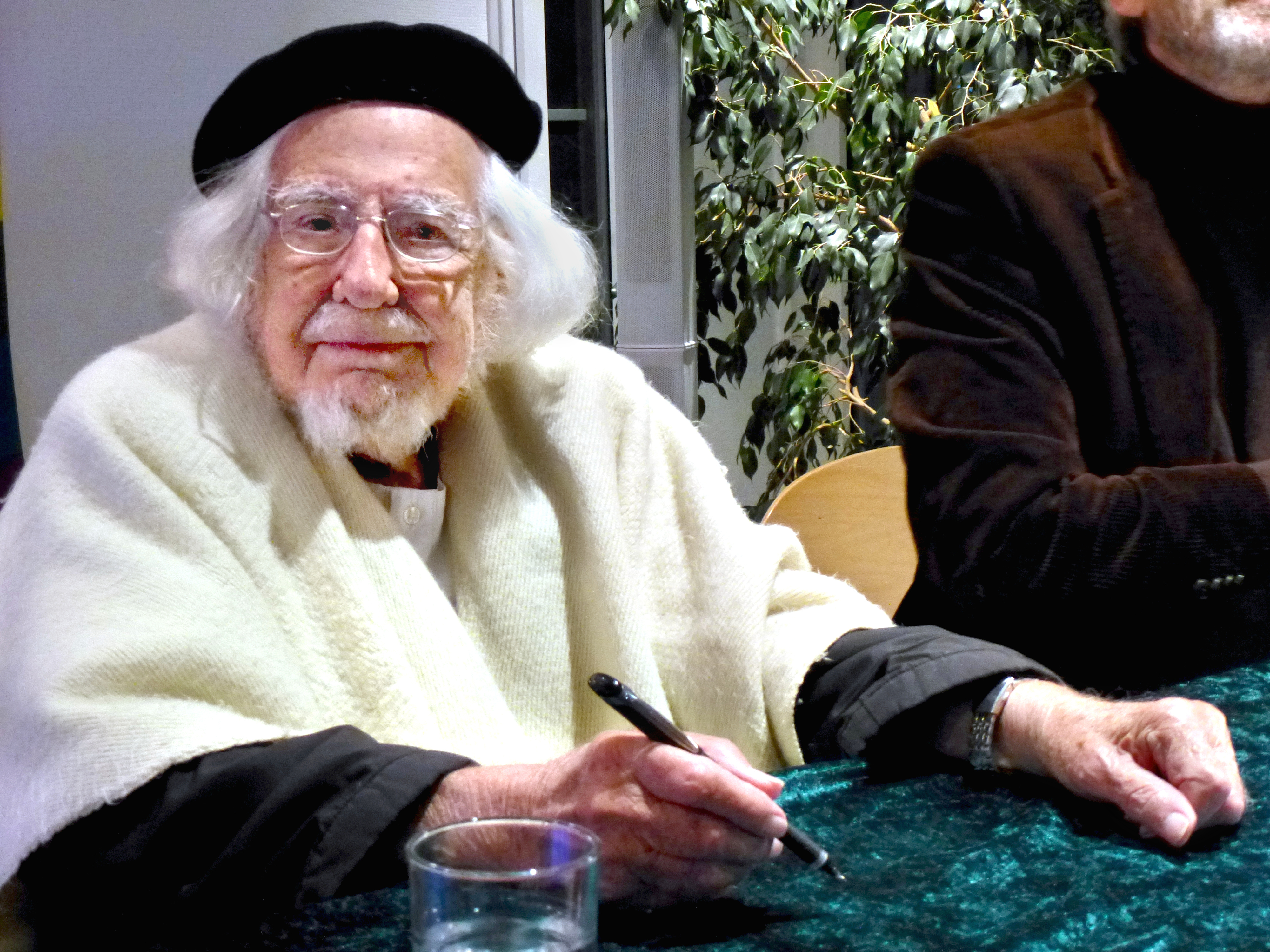 Ernesto Cardenal (born 1925-01-20) on 2014-11-15 during a reading in the Protestant parish center in Polch (district of Mayen-Koblenz, Rhineland-Palatinate, Germany)